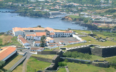 Fortress os São João Baptista do Monte Brasil, Angra do Heroísmo, Terceira island, Azores: aerial view.